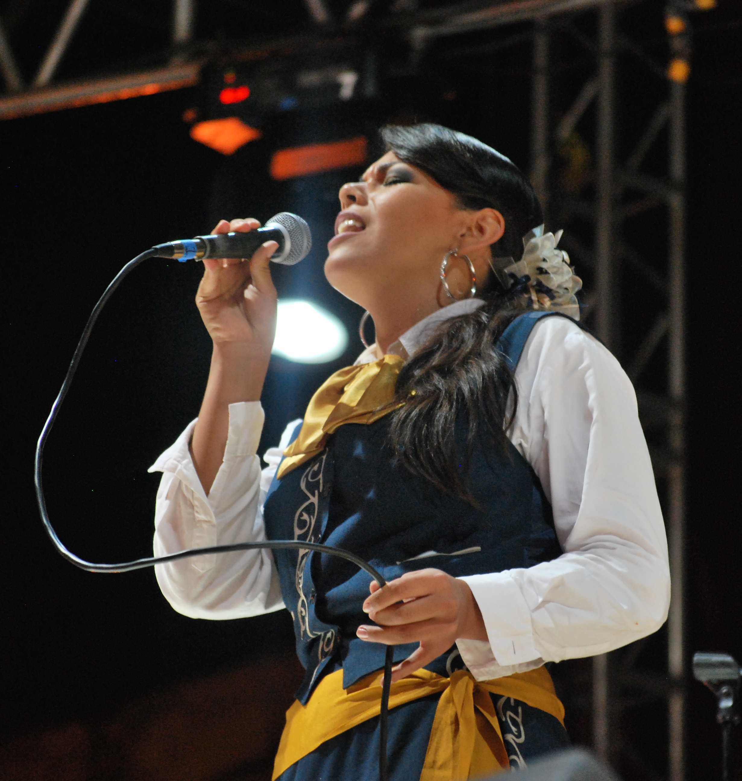 Mariachi singer at the Festival del Mariachi, Charrería y Tequila in San Juan de los Lagos, Mexico